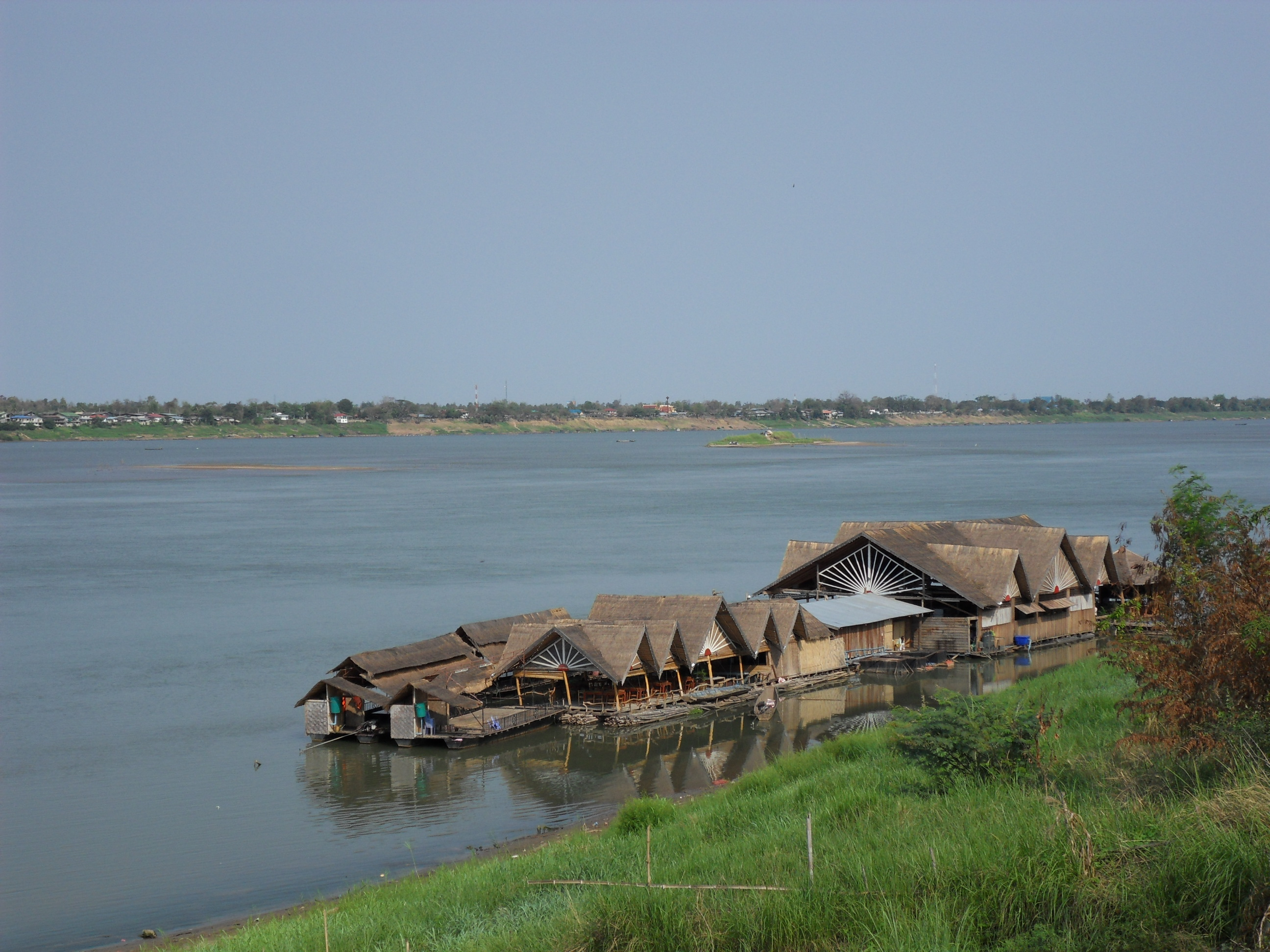 Floatting restaurant on the Mekong River, Savannakhet, Laos